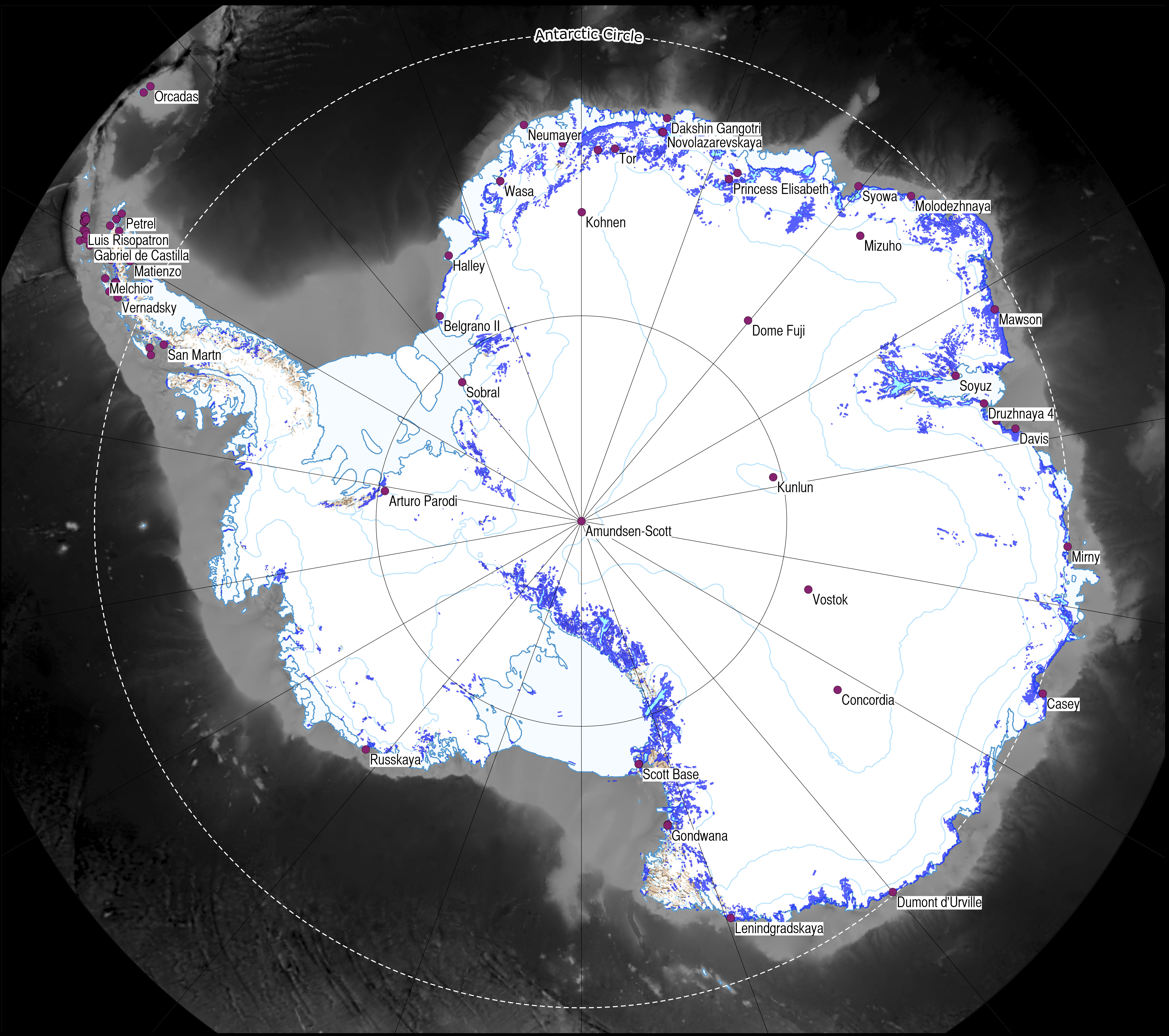 Areas of Blue Ice occurence in Antarctica